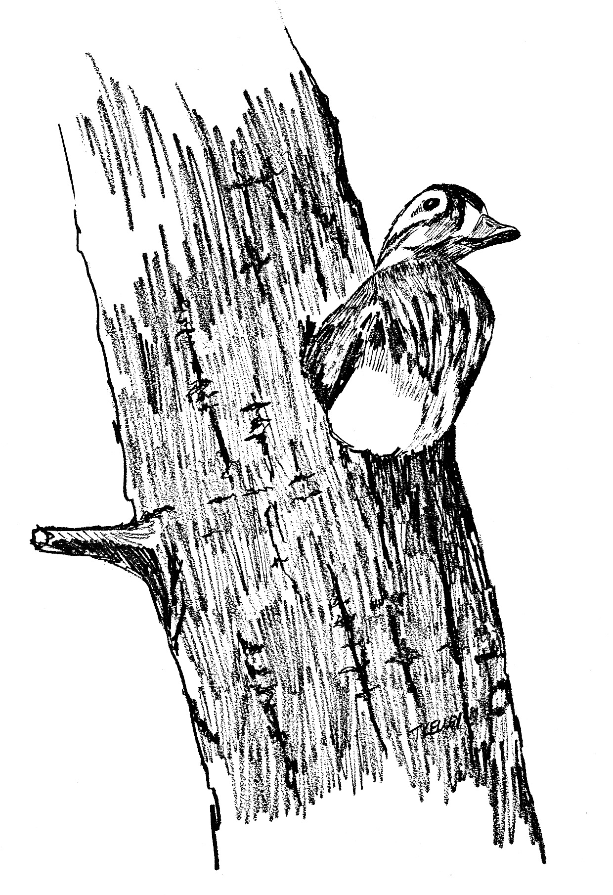 A hen Wood Duck in its nest